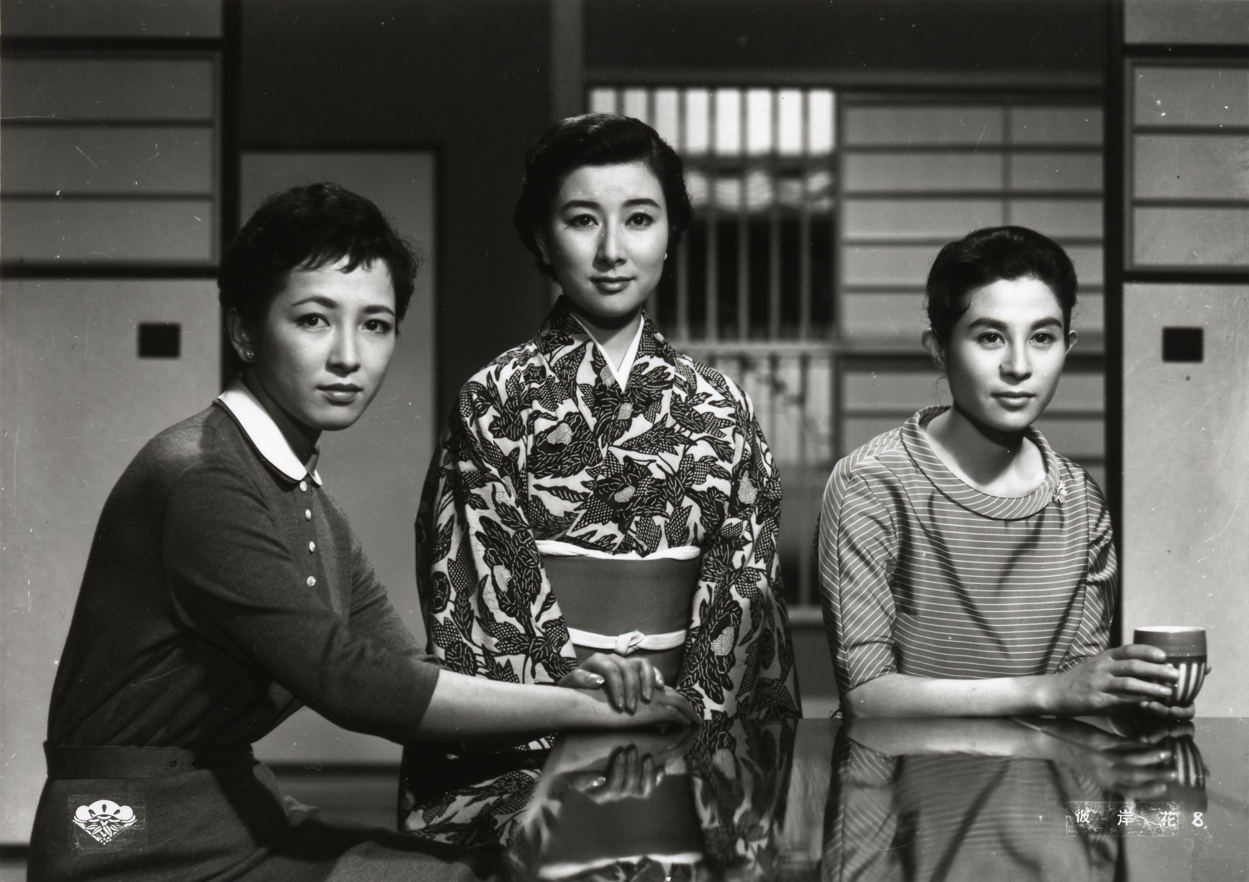 From left: Ineko Arima, Fujiko Yamamoto and Yoshiko Kuga in 1958 Japanese movie Equinox Flower